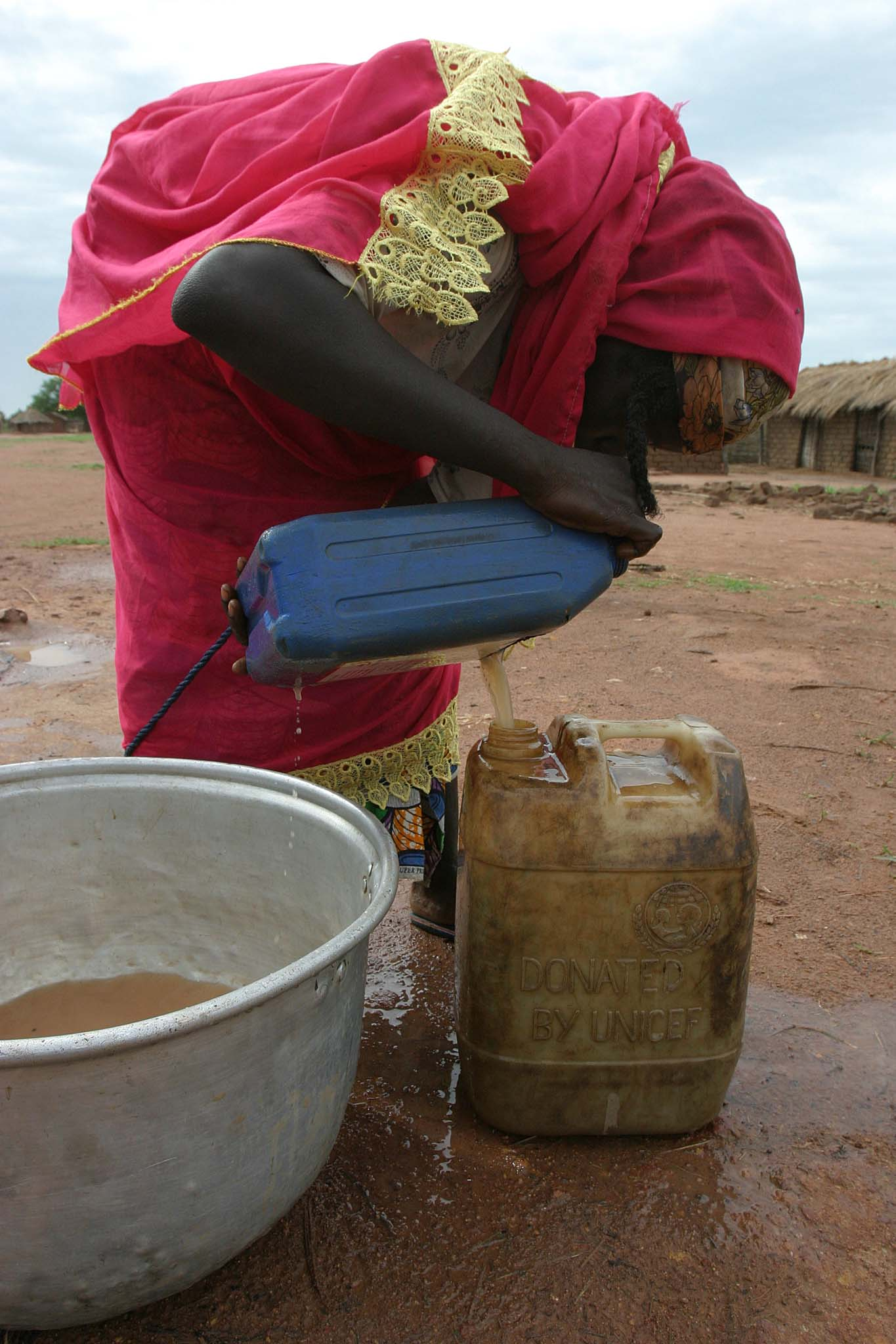 A woman is filling an UNICEF jerrycan at the Boromata well. The Vakaga region, close to Sudan, suffers from a high incidence of environmental diseases. Rate of diarrhea, which was found to be high amongst children under 5, affects up to 50% of children per week. © Pierre Holtz | UNICEF